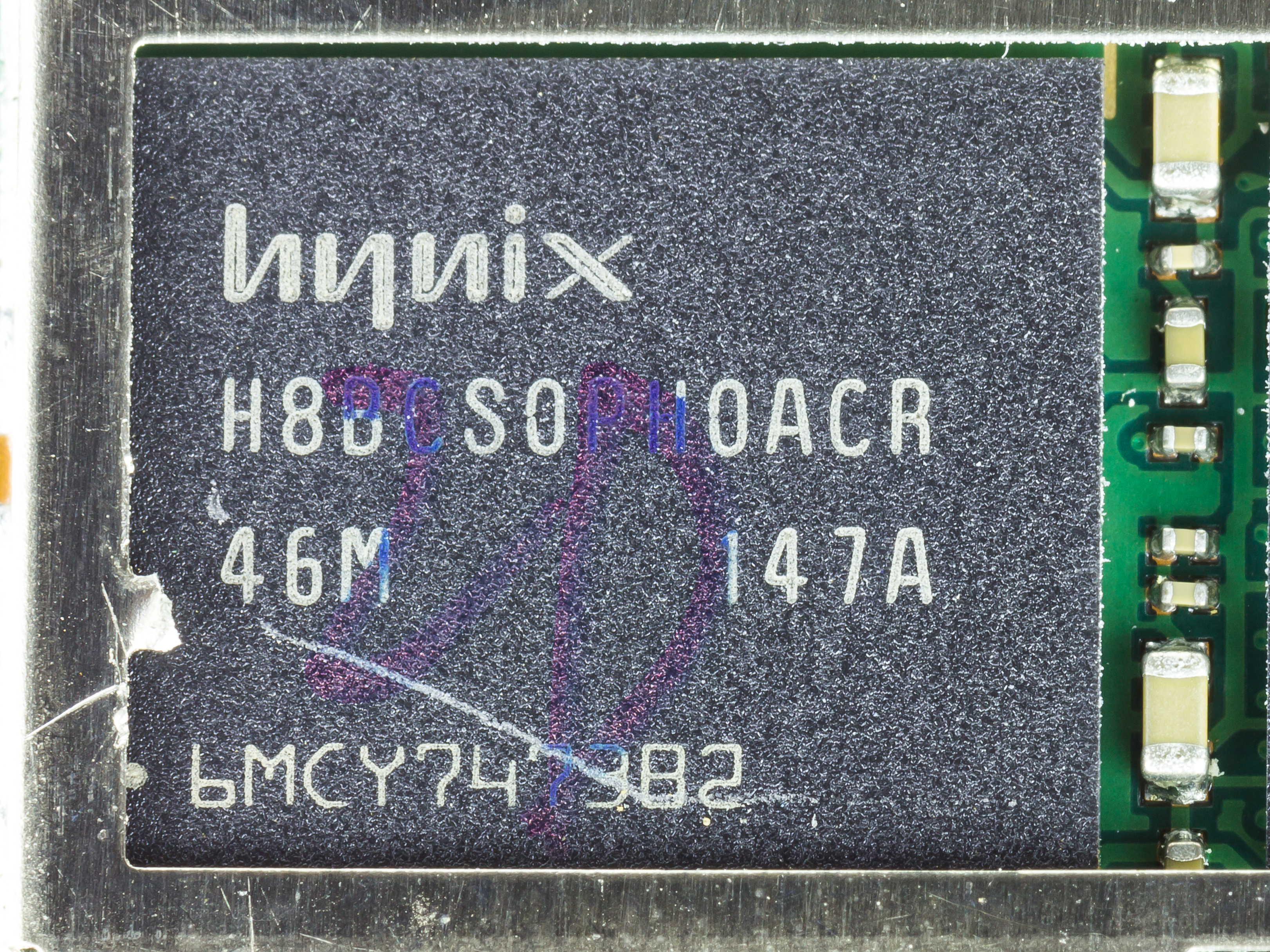 Huawei E367, O2 Surfstick Plus - Hynix H8BCS0PH0ACR - NAND Flash memory 1Gb